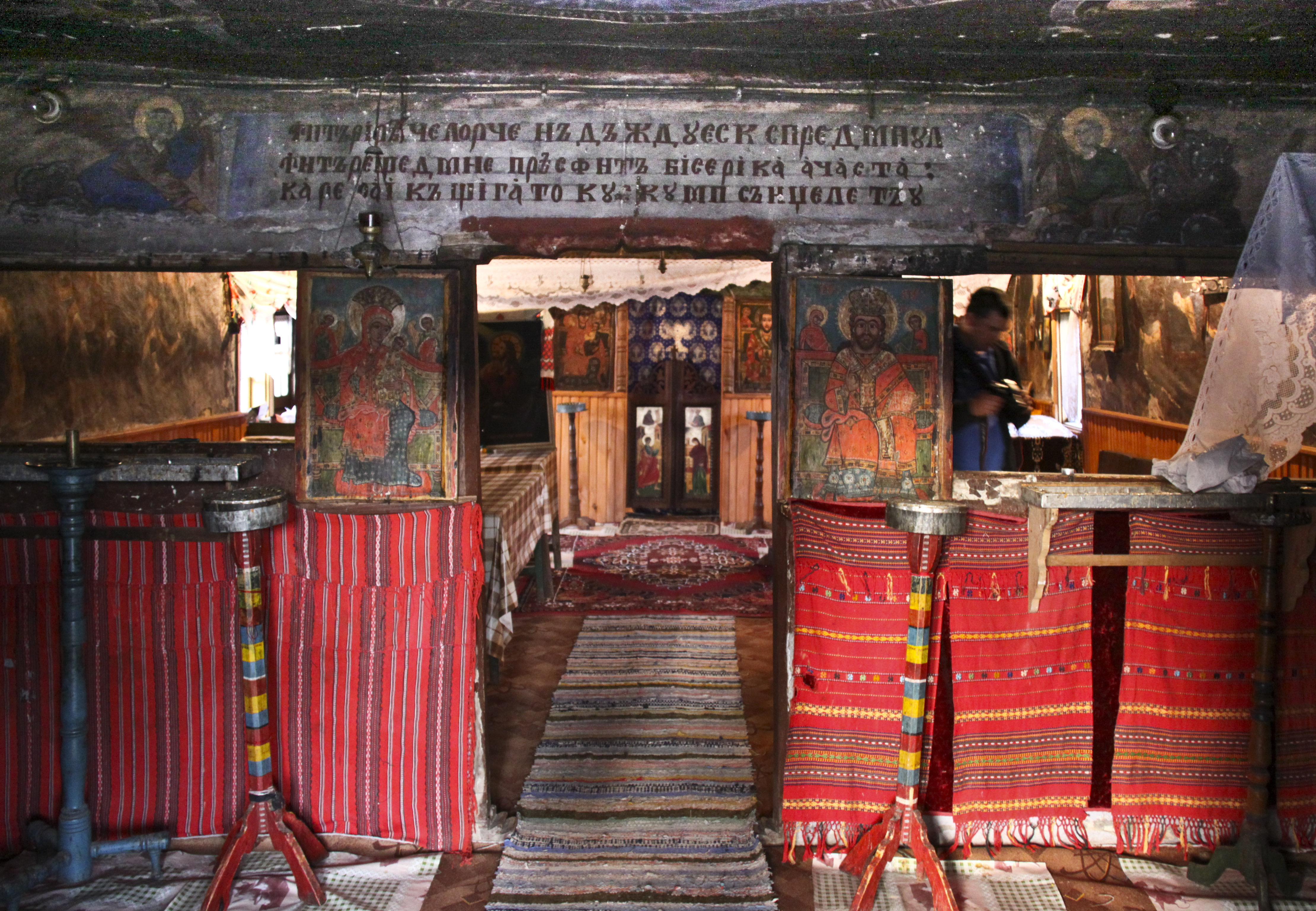 Roşioara, Vâlcea county, Romania: the wooden church.